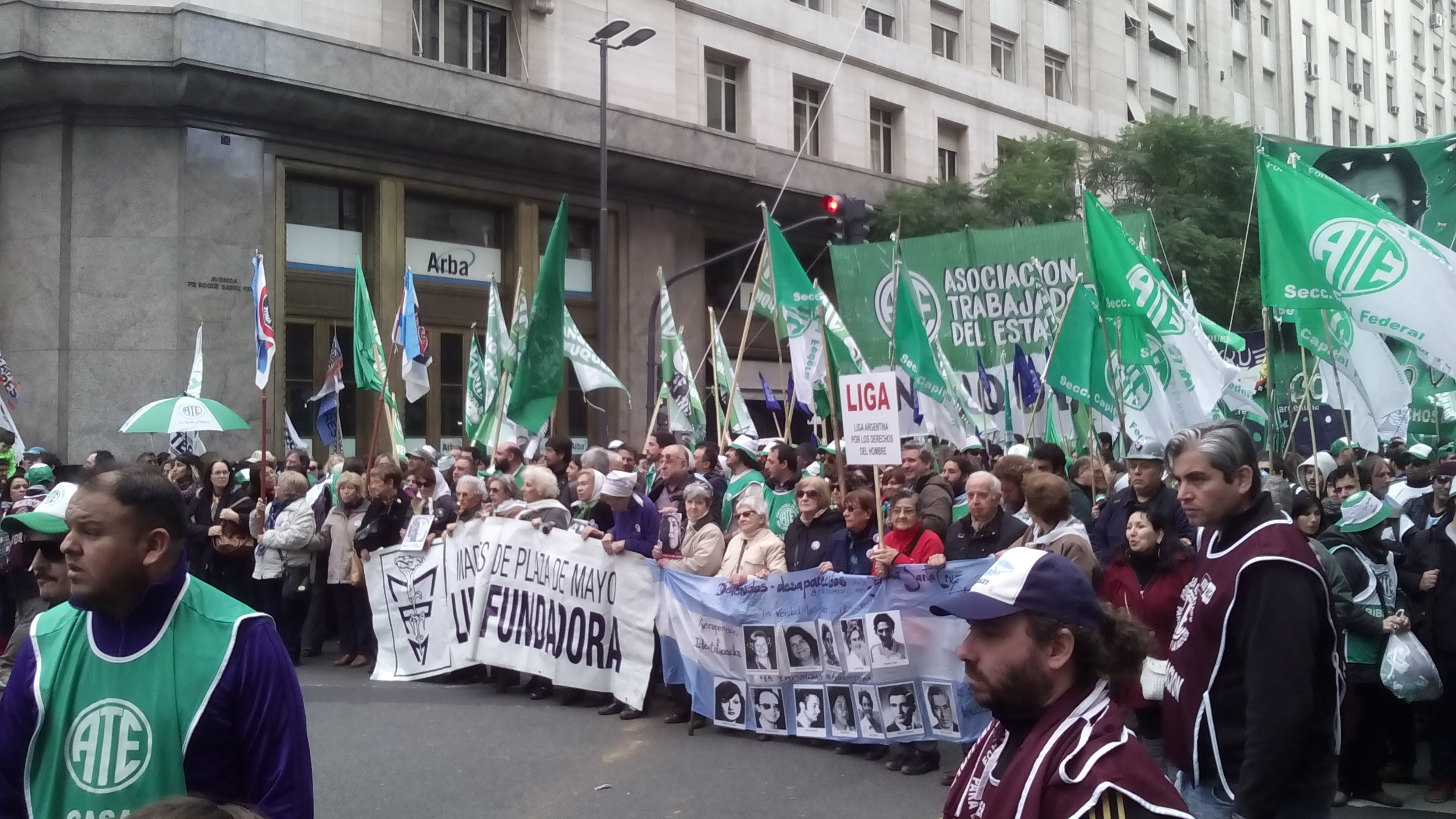 Madres de Plaza de Mayo and ATE in the Marcha Federal of 2016 in Argentina